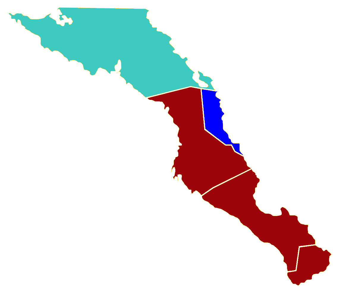 Baja California Sur local governments after 2018 Elections